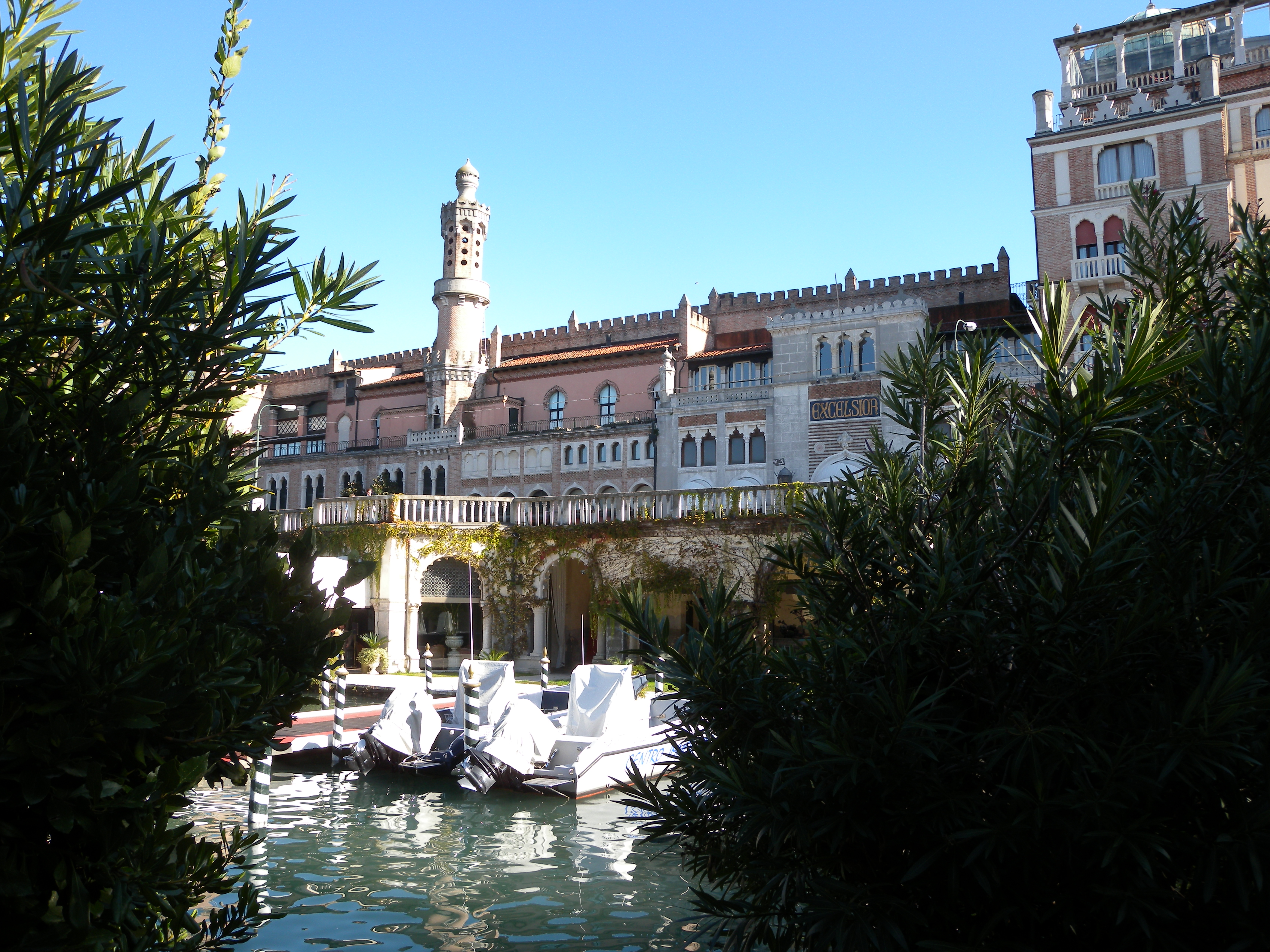 westside of Hotel Excelsior on Lido di Venezia